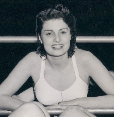 1942 NY Helene Rains Gloria Callen Marilyn Sahner Swim Champions Press Photo